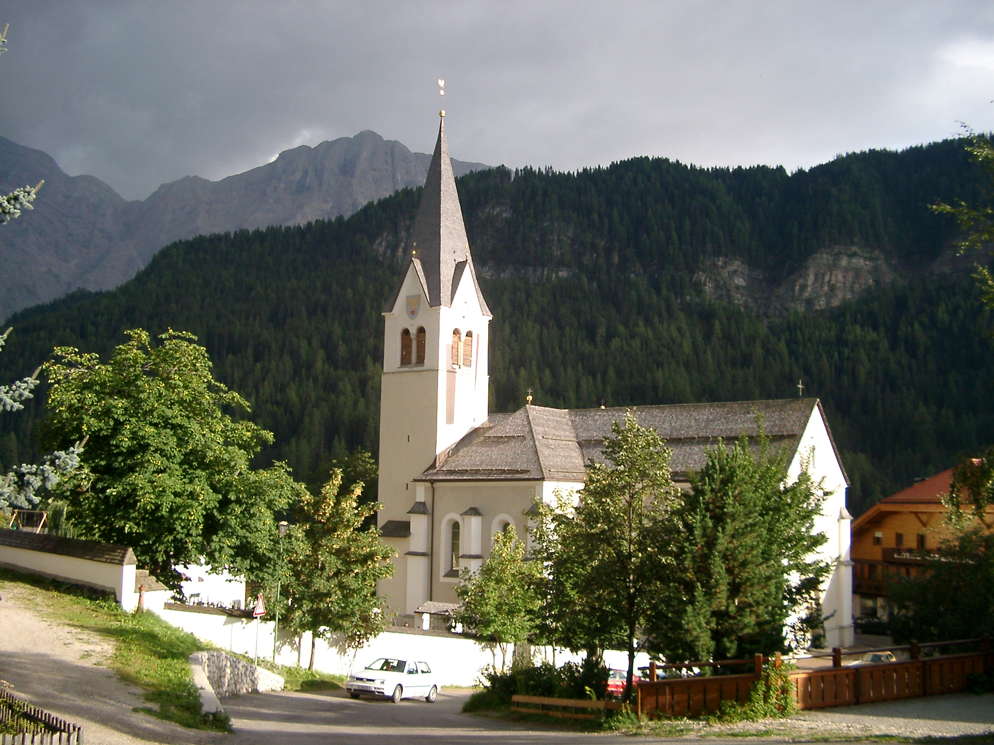 Church of La Val, South Tyrol, Italy